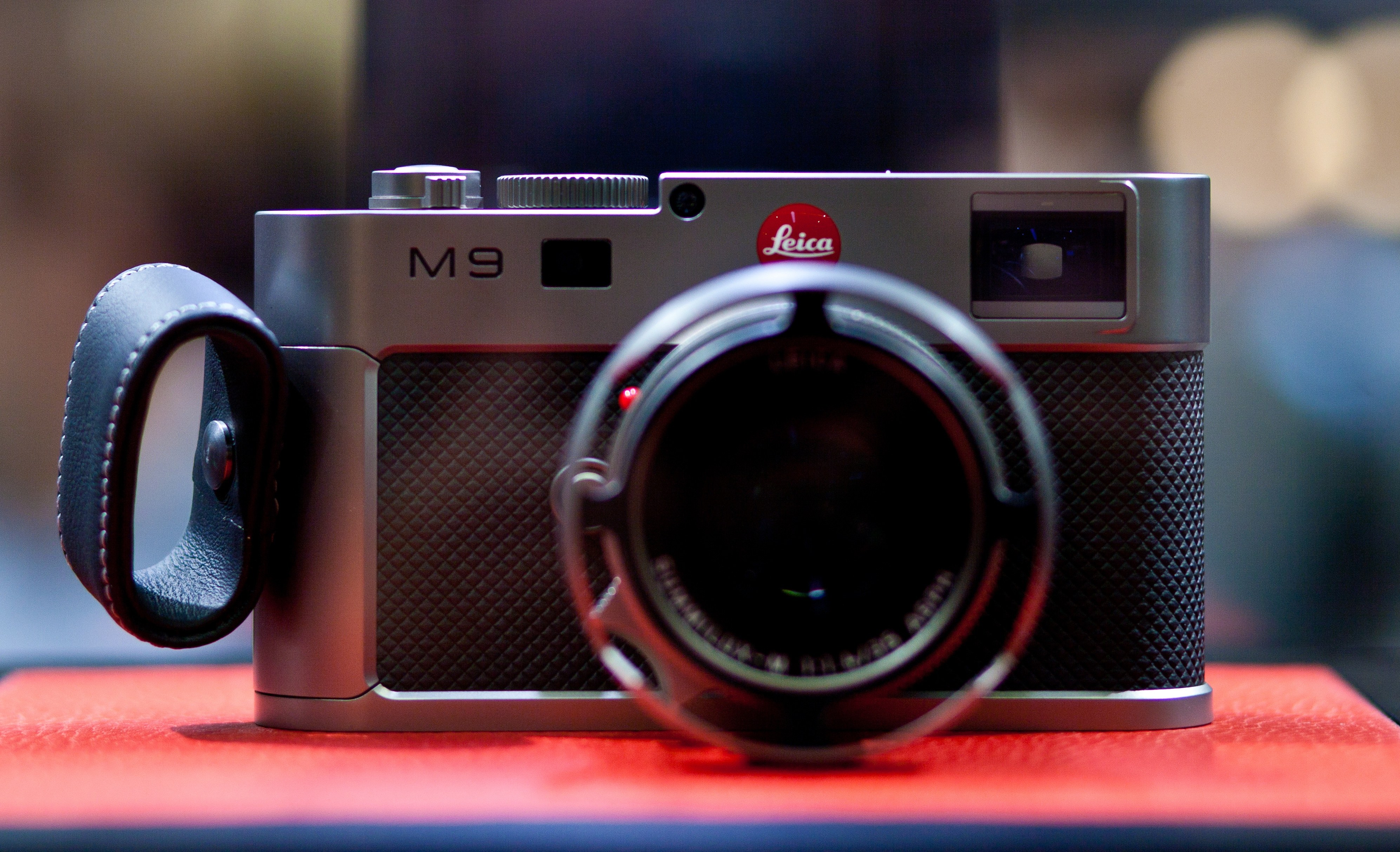 Leica M9 Titanium special edition at Photokina 2010, Cologne.